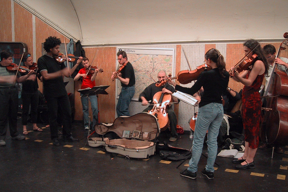 Orchestra in a Paris metro station.